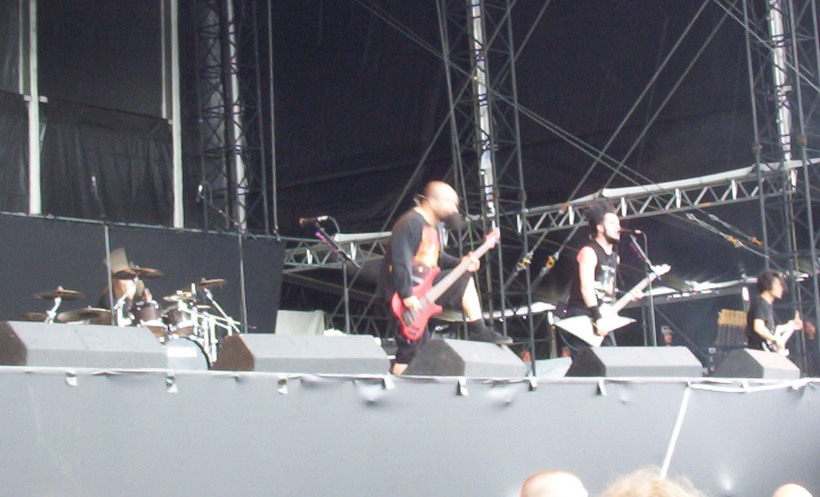 Cropped from this image